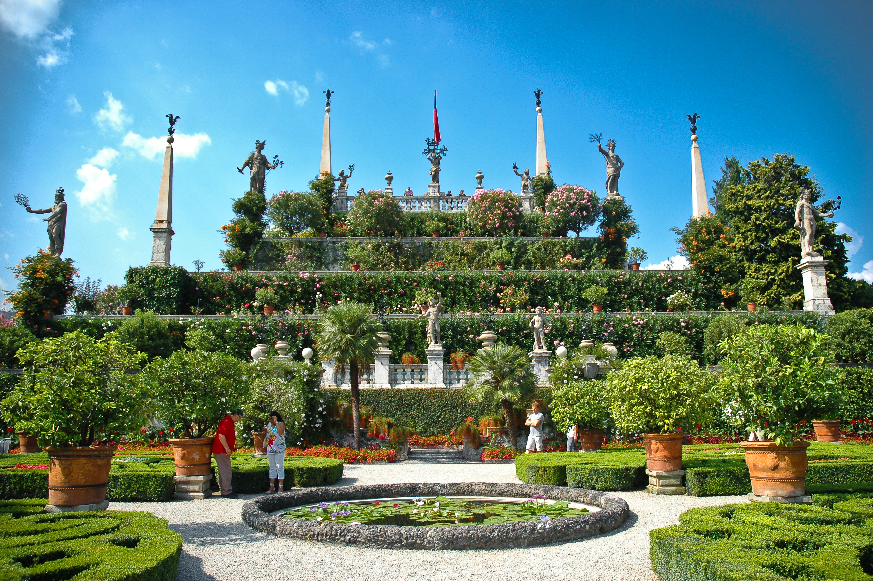 La piramide a terrazze nei giardini dell'Isola Bella